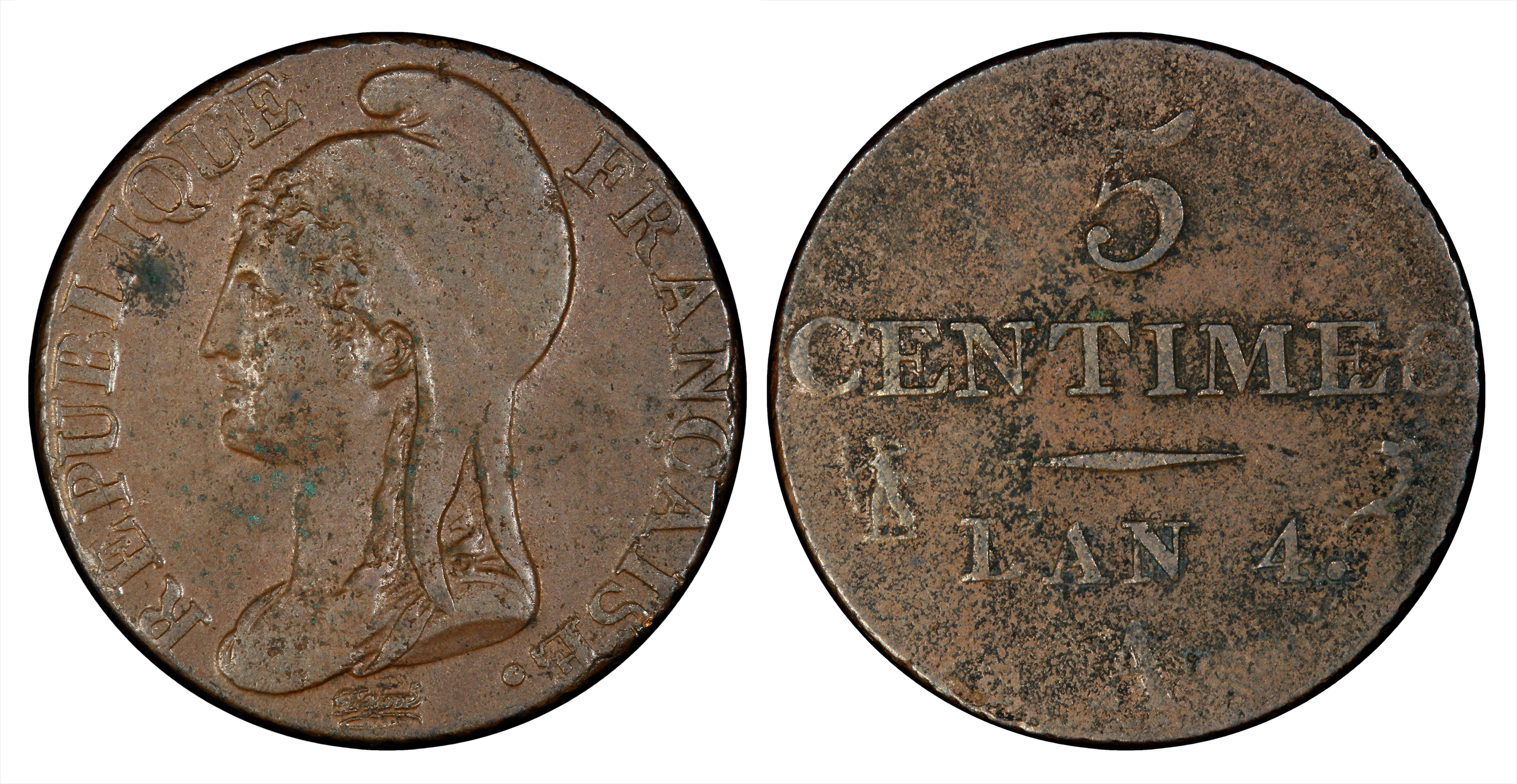 France 1795-96-A 5 Centimes